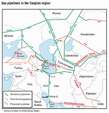 Gaz pipelines in the Caspian region.